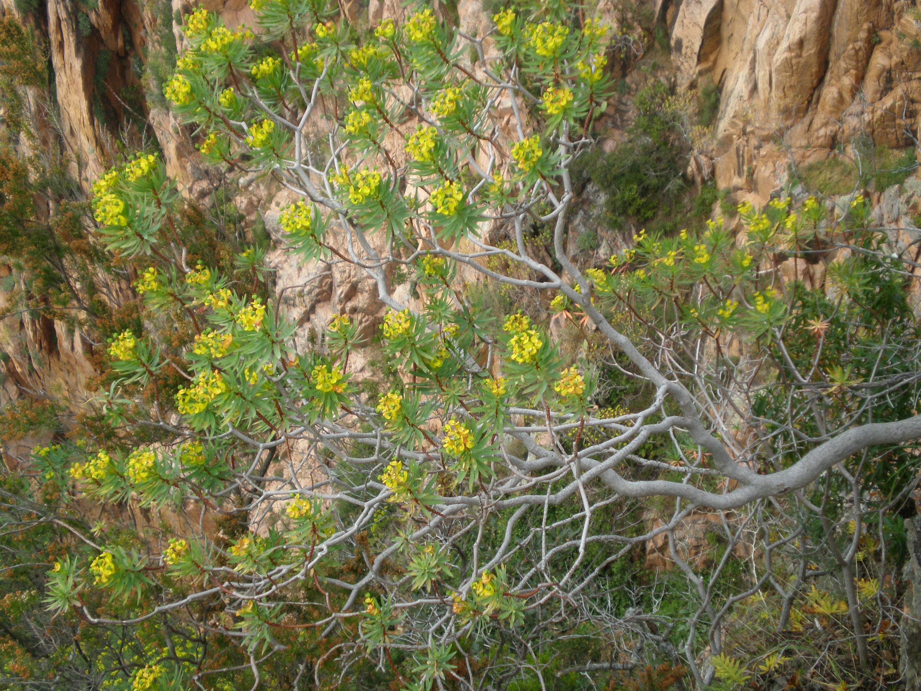 Stem, leaves and flowers of Euphorbia dendroides